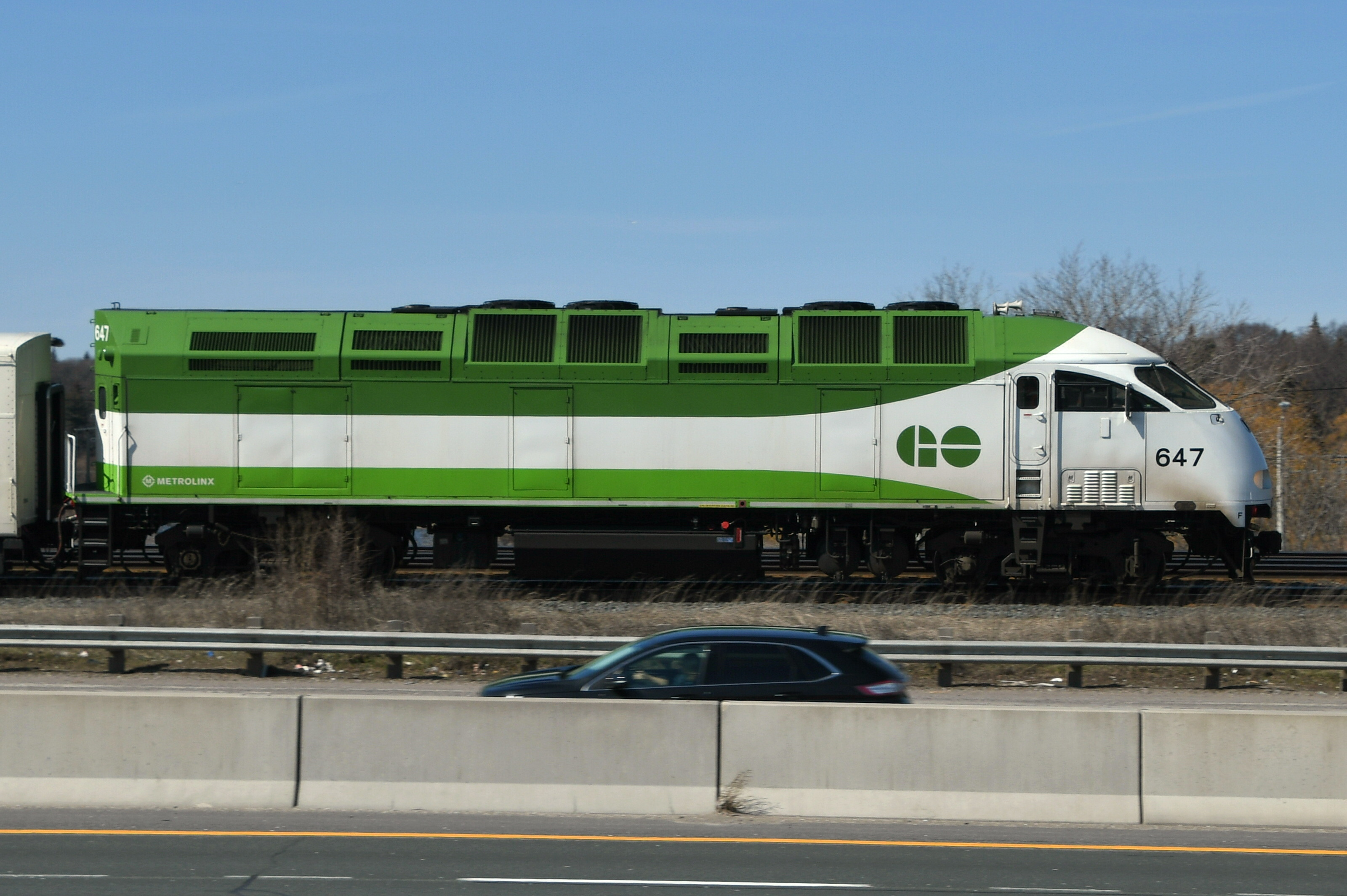 The prototype MotivePower MP54AC at Toronto, Ontario "GOT 647" of GO Transit was originally built as an MP40PH-3C in 2010. The 4,000 horsepower locomotive was converted into the first 5,400 horsepower MP54AC in 2015. It is shown wearing the new livery of Metrolinx, the parent organization of GO Transit. Note the different configuration of the exhaust vents compared with the MP40PH-3C.